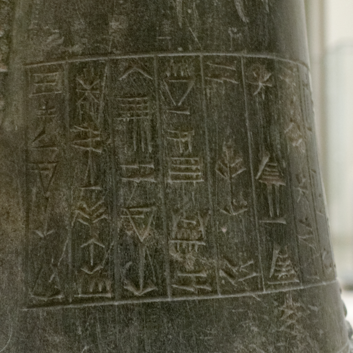 Statue of Idi-ilum, šakkanakku of Mari, dedicated to Ishtar. From the palace of Zimri-Lim in Mari.